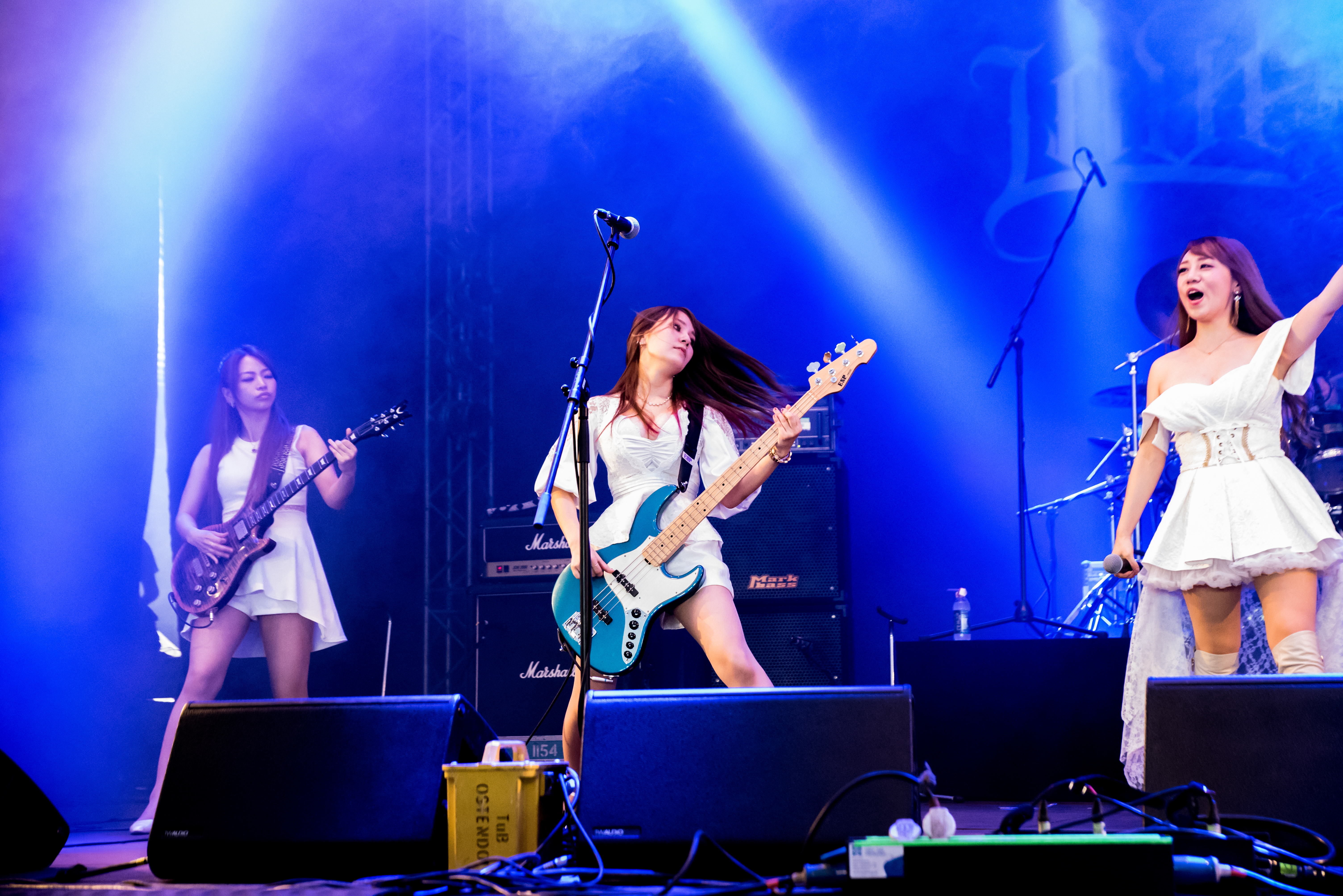 Lovebites - Wacken Open Air 2018